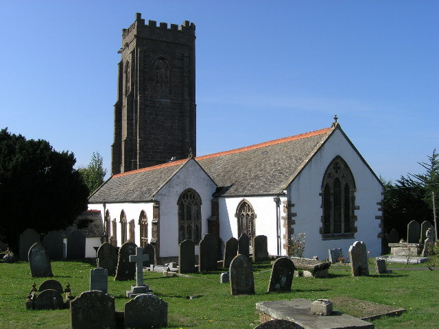 The medieval parish church of Watchet stands on a hill SW of the little harbour and town centre. It is dedicated to St Decuman. For more information see the Wikipedia article Watchet.